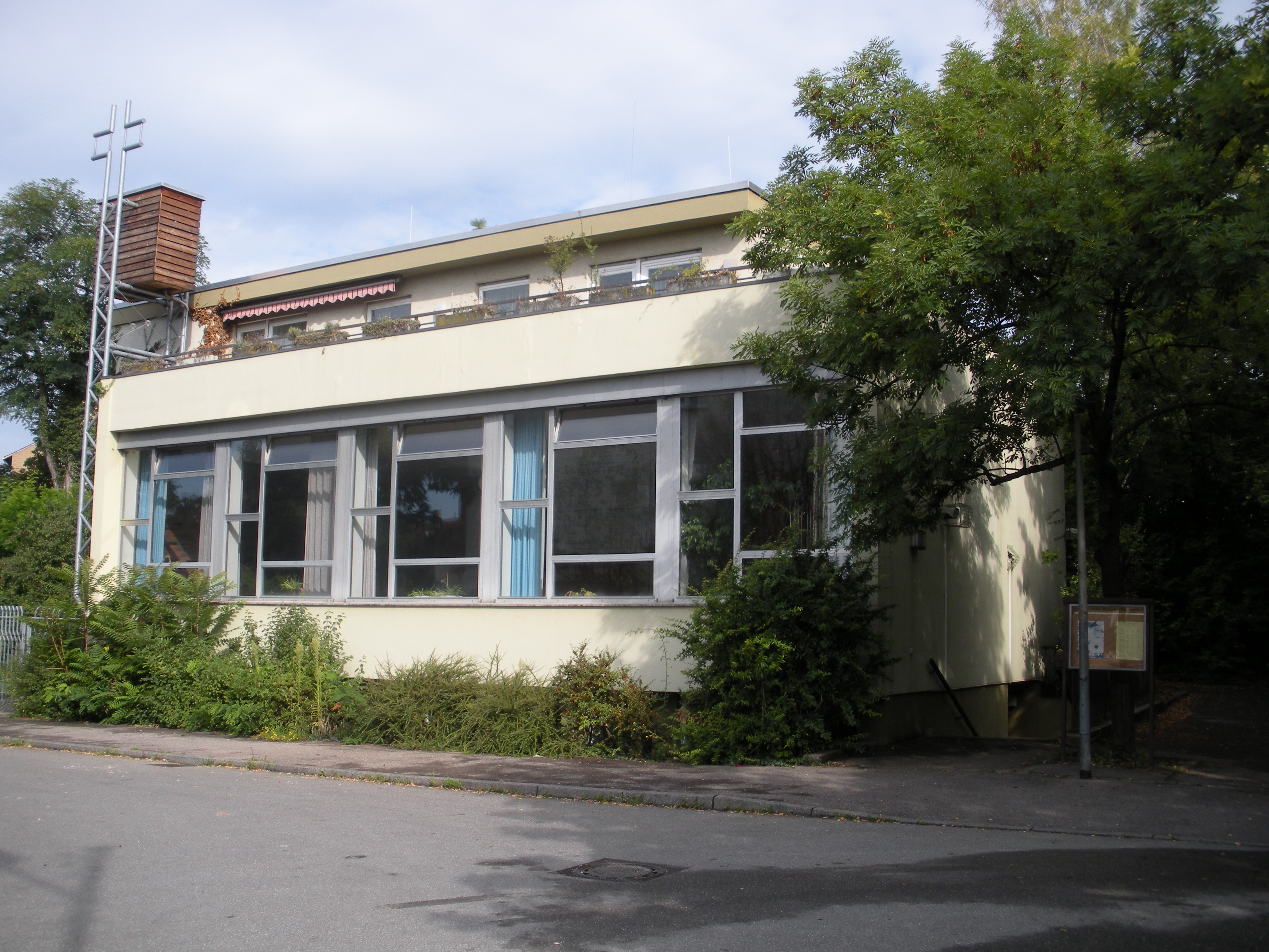 Protestant Church of Blumhardt in Stuttgart-Bad Cannstatt